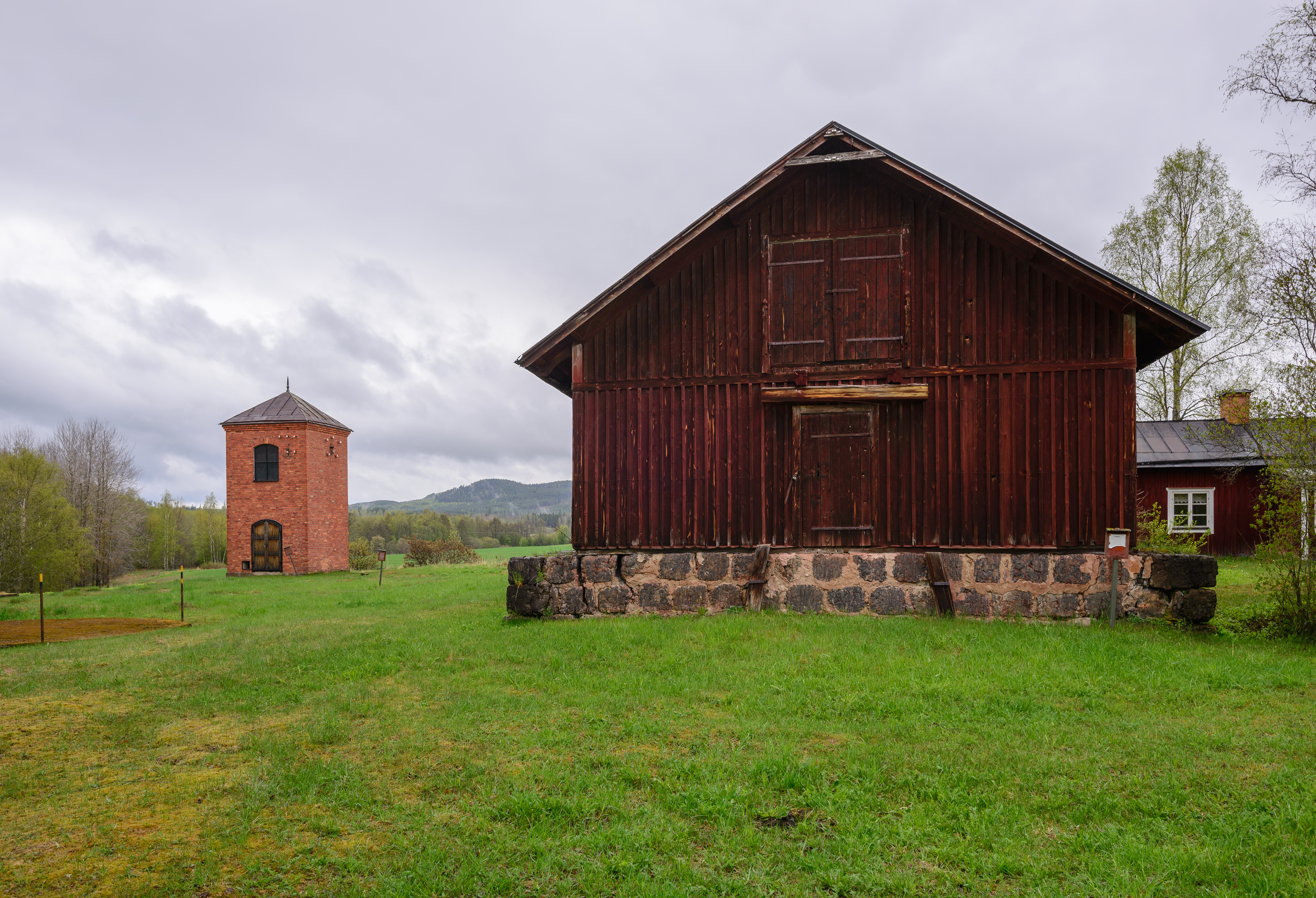 The site of former Rällingsberg iron mines (1841-1932) outside Långshyttan, Hedemora Municipality.